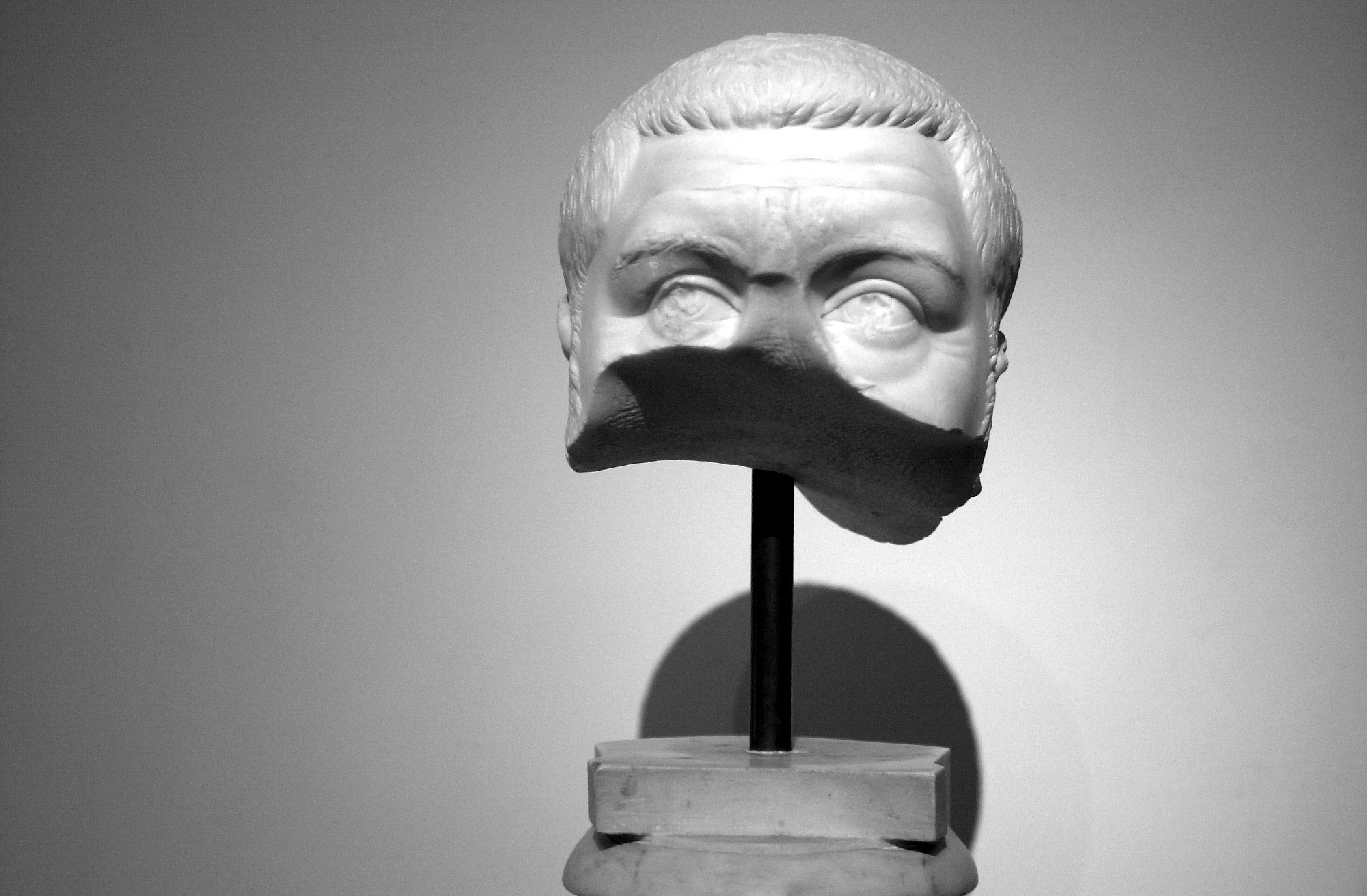 Fragmentary head of Roman Emperor Maximinus Thrax, from the Antiquarium of the Palatine, Rome